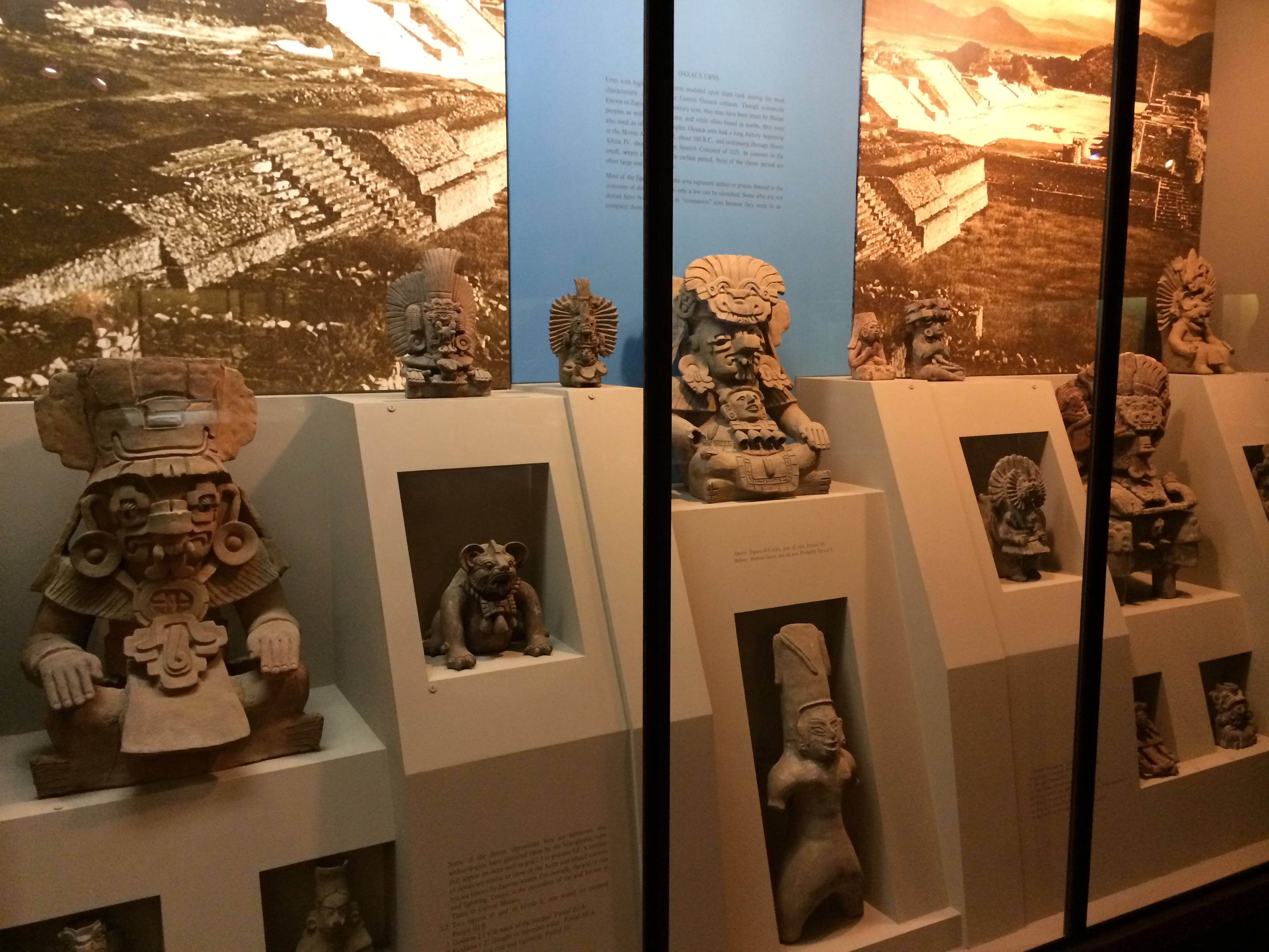 Zapotec burial urns on display in the Hall of Mexico and Central America, American Museum of Natural History